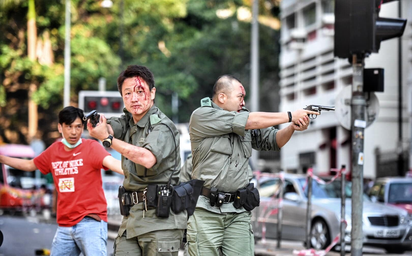 Police draws gun against protesters, then shot warning rounds to the sky. 粵語: 【警方開槍示警】油麻地1540，彌敦道窩打老道交界，兩架警車遇上彌敦道嘅示威者，雙方發生衝突，最後兩名警員向天開兩槍示警。 #十一沒有國慶只有國殤遊行 #遍地開花遊行 #實彈開槍 #開槍示警